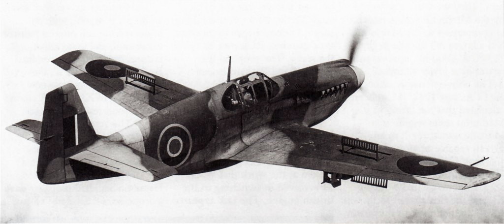 Sole RAF A-36A on demonstration flight showing dive brakes